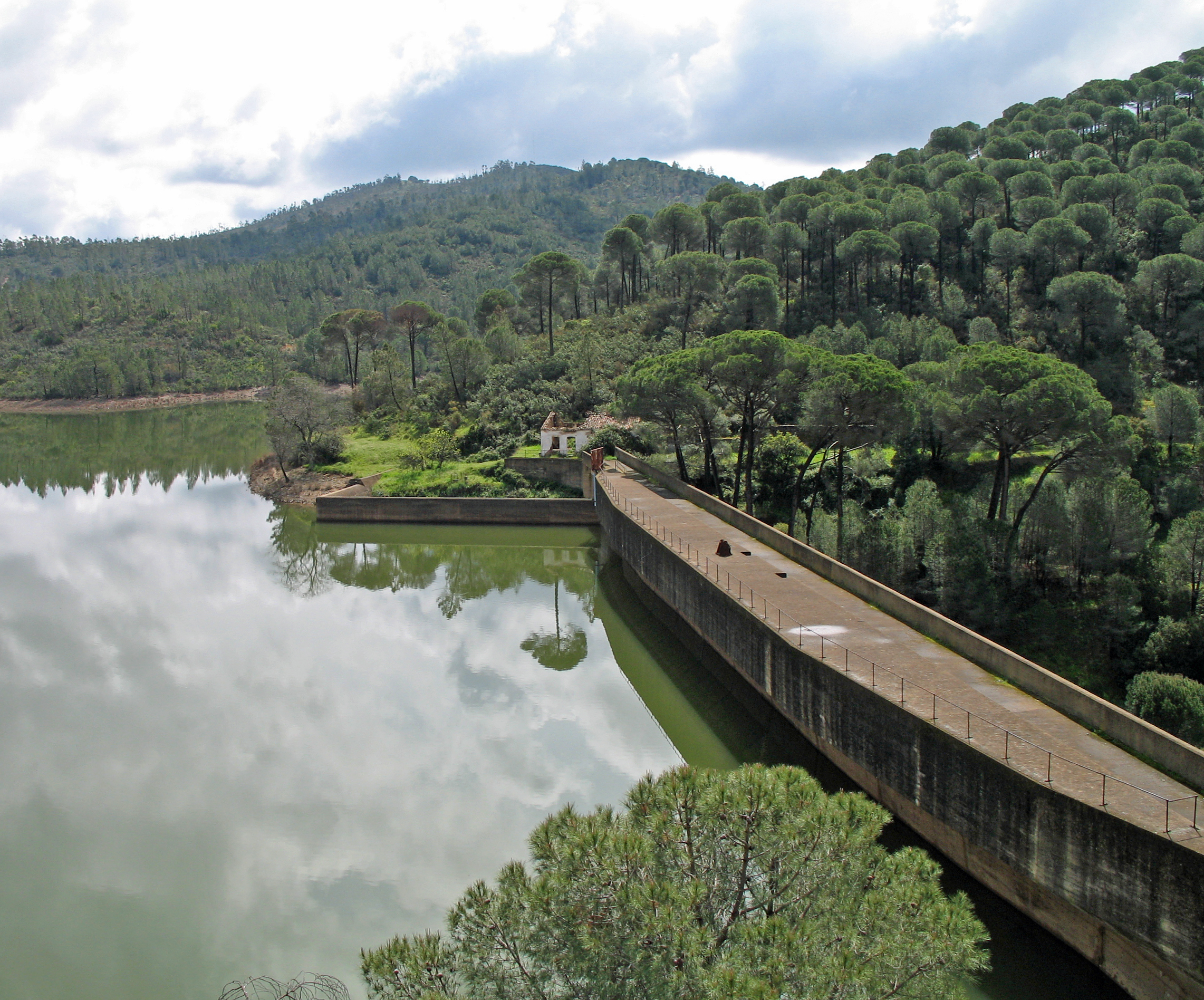 Campofrío dam and reservoir (Huelva, Spain)